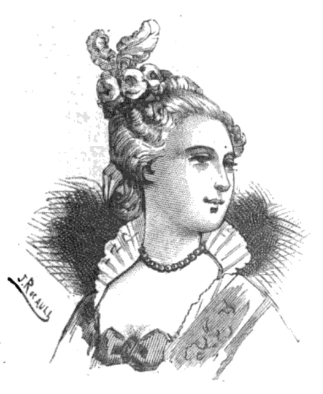 The ques-à-co hairdo, consisting of feathers at the back of the head in the shape of a question mark, created by Marie Antoinette's dressmaker, Rose Bertin, c. 1774